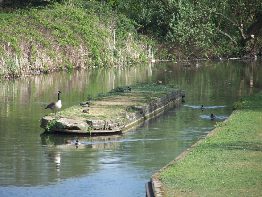 Toll Island near Windmill End Junction.